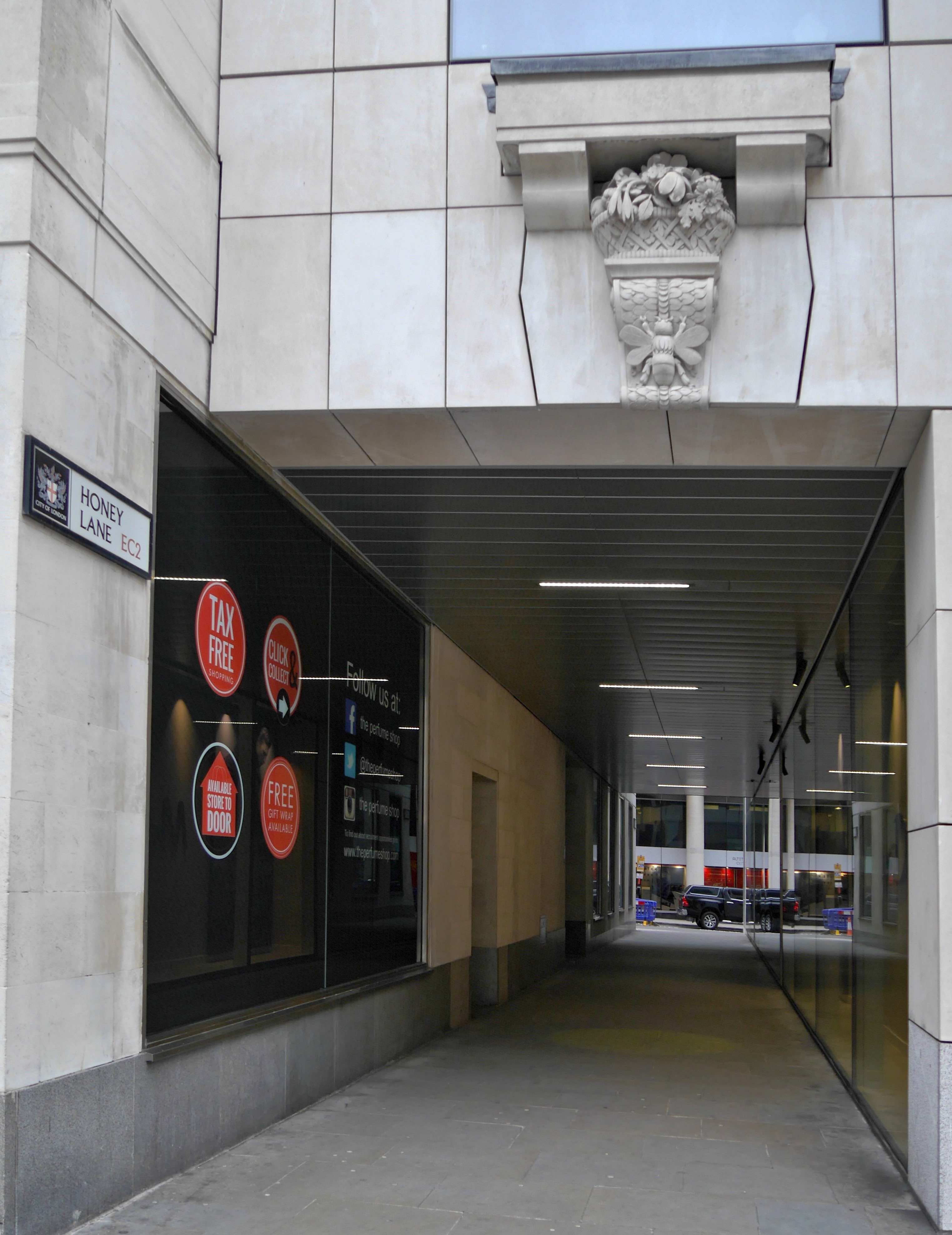 Honey Lane, January 2018